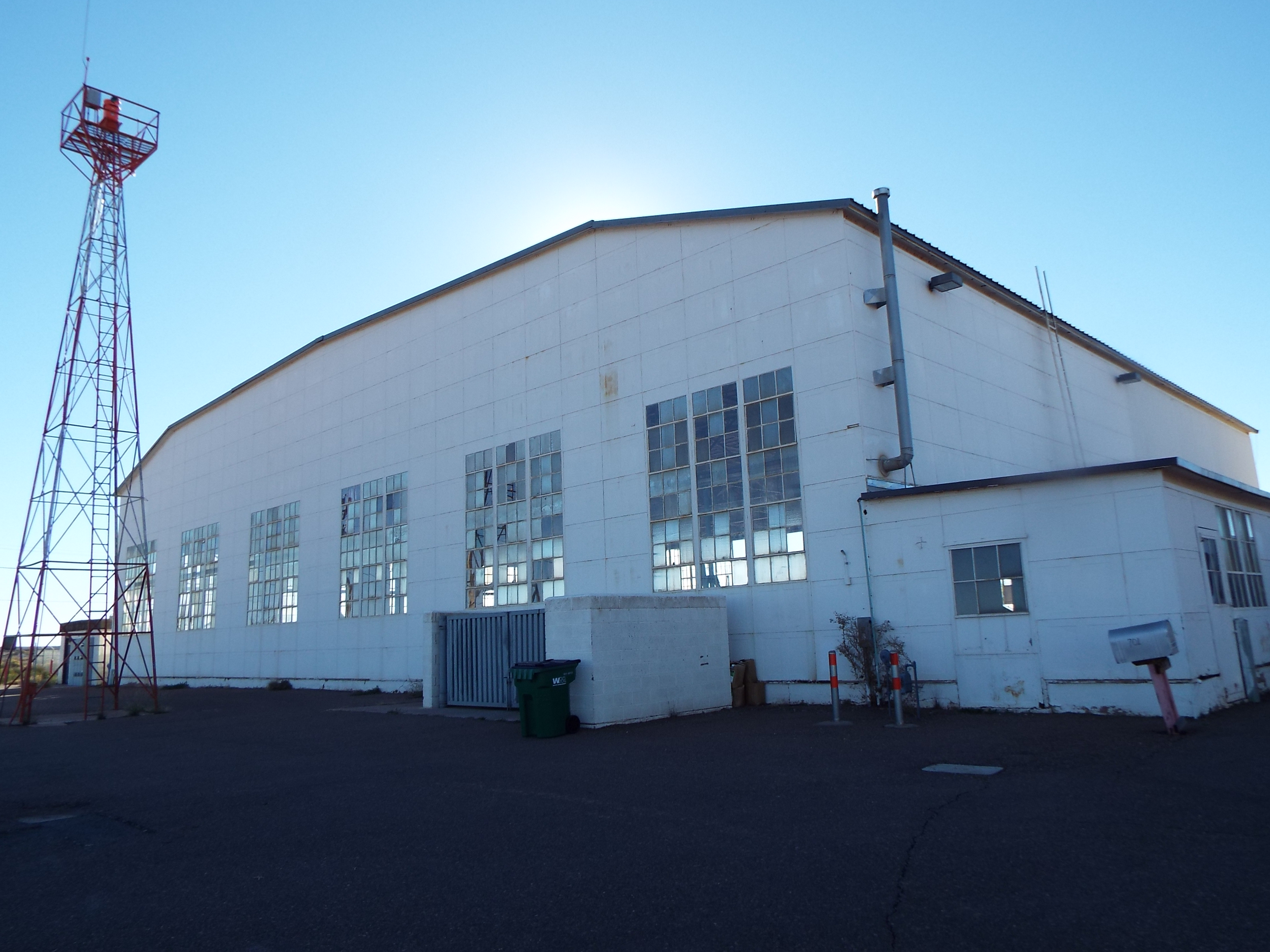 The Winslow–Lindbergh Regional Airport Hanger was built in 1929 and is located in 701 Airport Road.